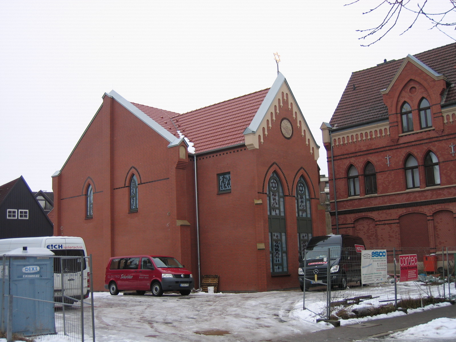 in Herford, District of Herford, North Rhine-Westphalia, Germany.